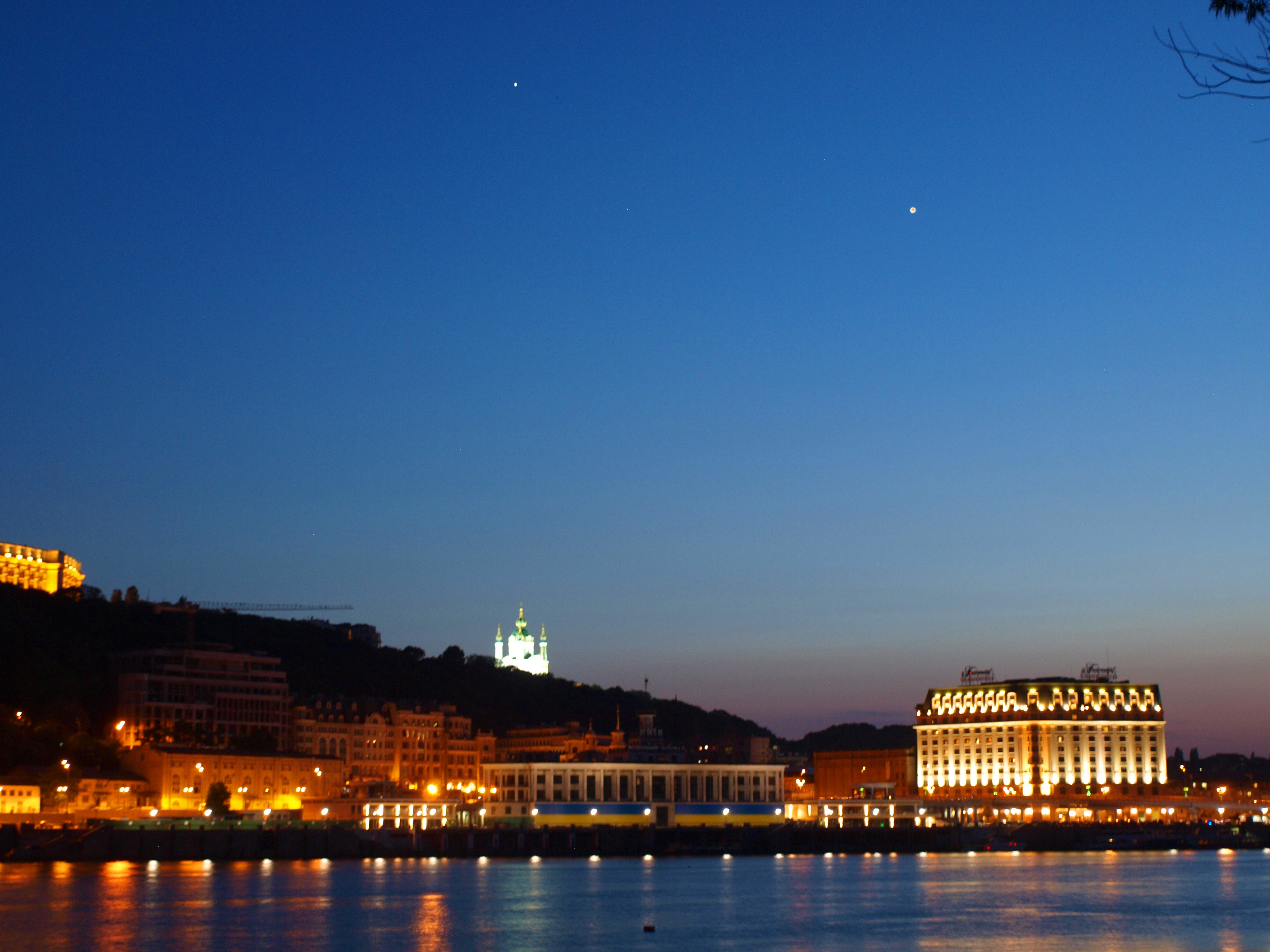 Venus and Jupiter (left) in the night sky above Kyiv